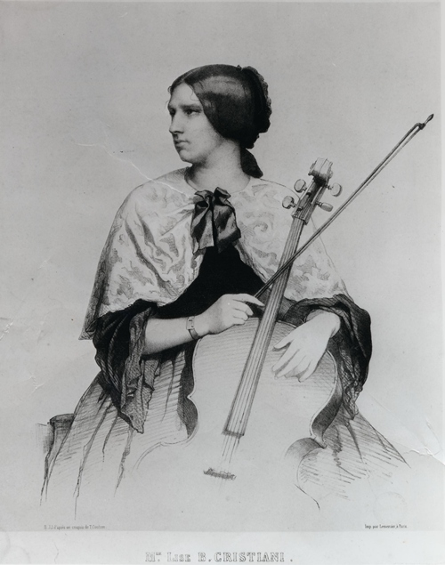 The French cellist Lisa Cristiani (1827–1853)